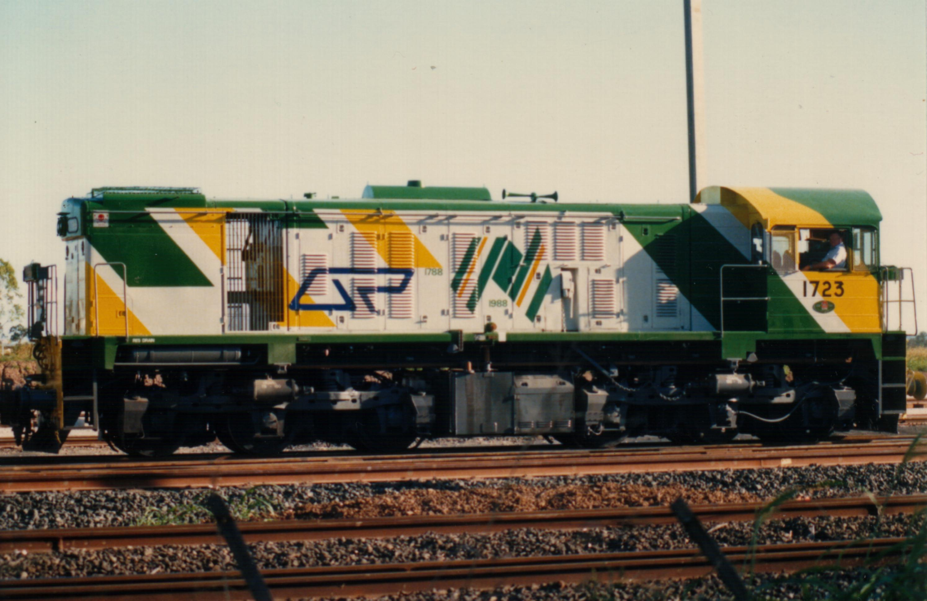 Queensland Rail 1720 Class DEL 1723 pictured shunting at Moolabin goods yard on the morning of 4 February 1988. The livery is in respect of Australia's Bi-Centennial year. It was applied to three locomotives in the QR fleet.